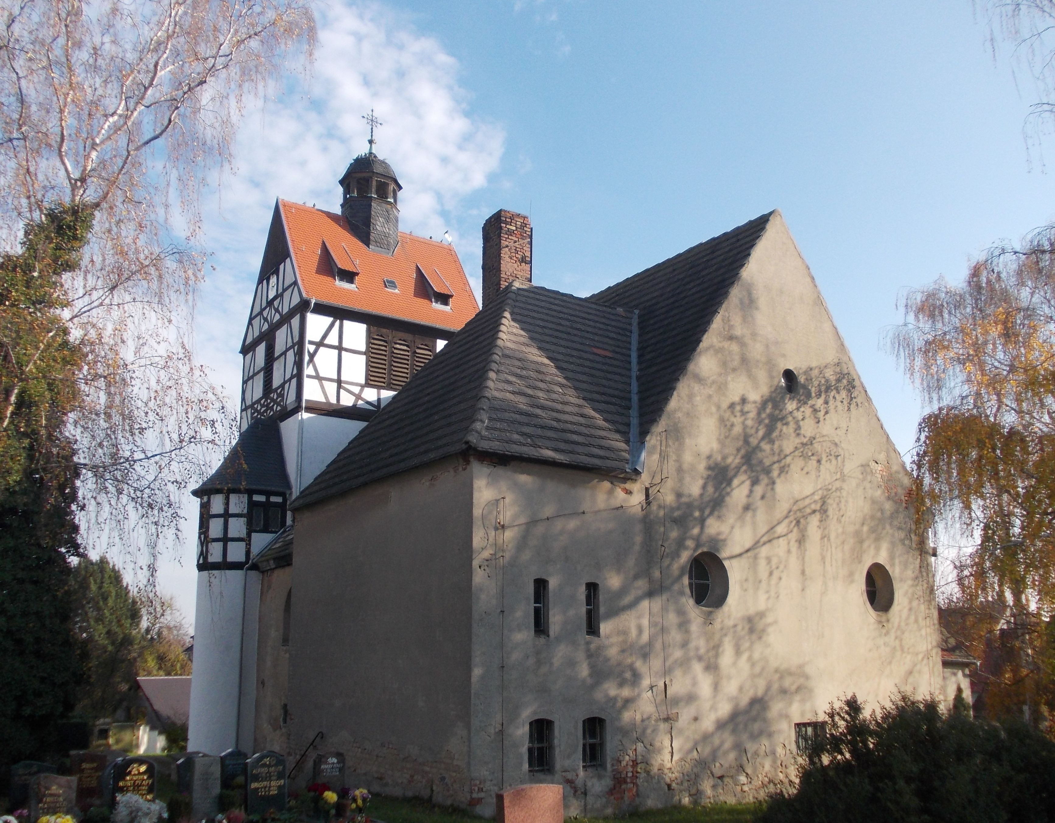 Spora church (Elsteraue, district: Burgenlandkreis, Saxony-Anhalt)